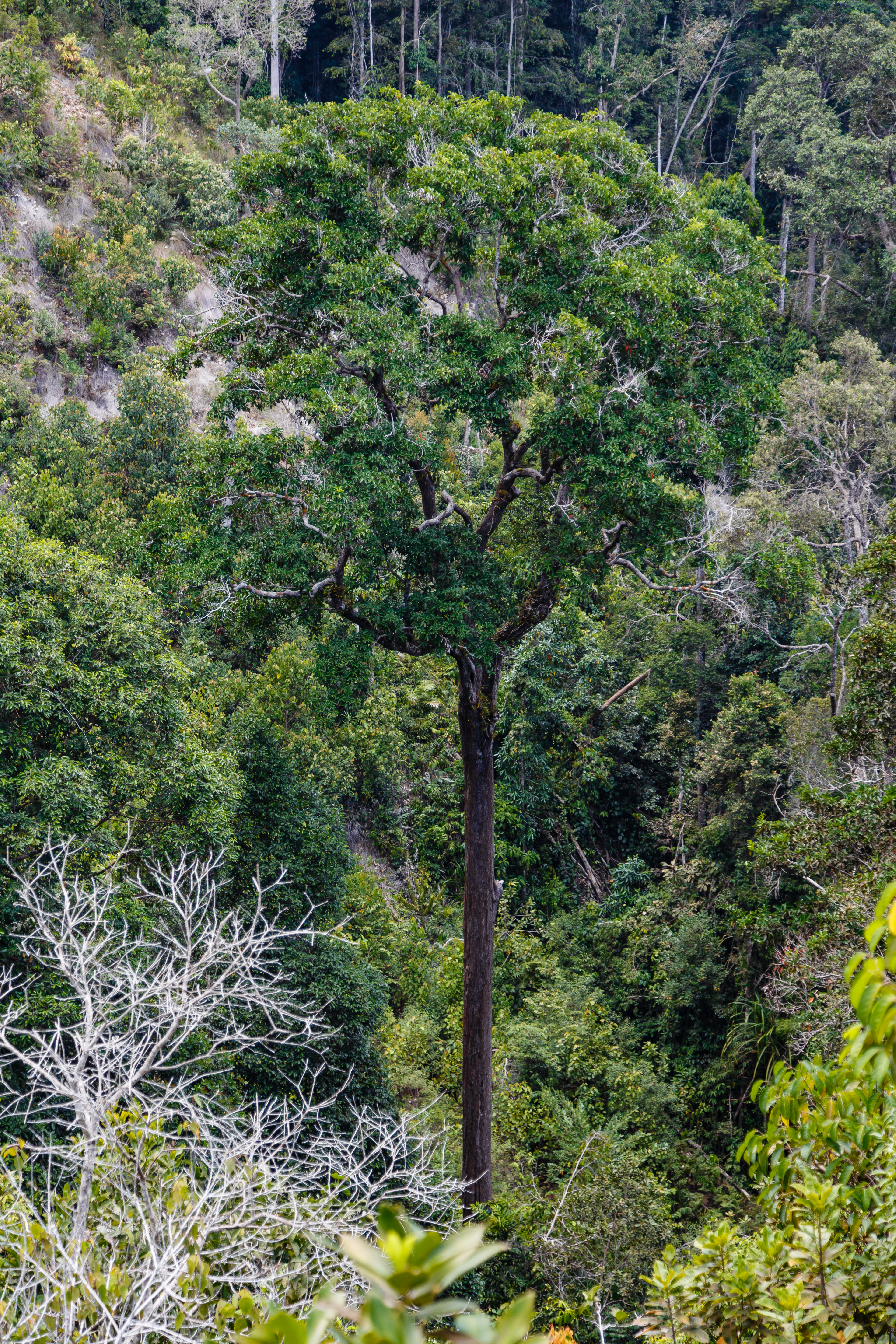 Mount Silam, Lahad Datu, Sabah: Unidentified tree in the rainforest at Mount Silam